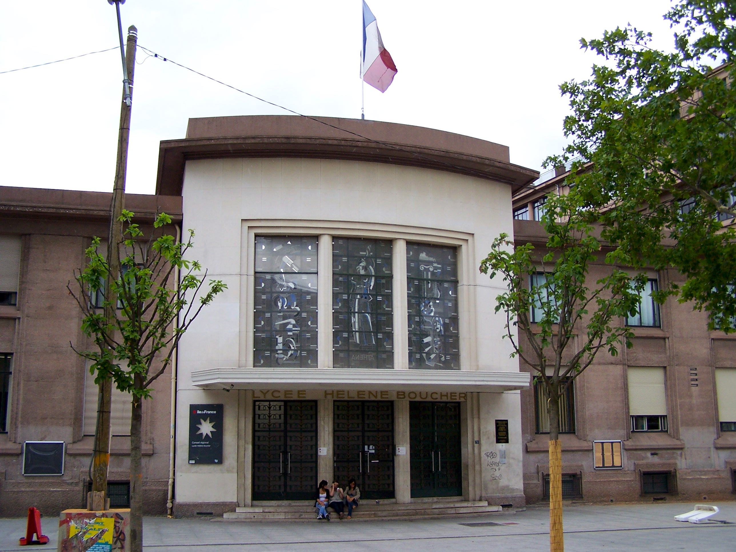 View of Lycée Hélène Boucher, Cours de Vincennes, Paris